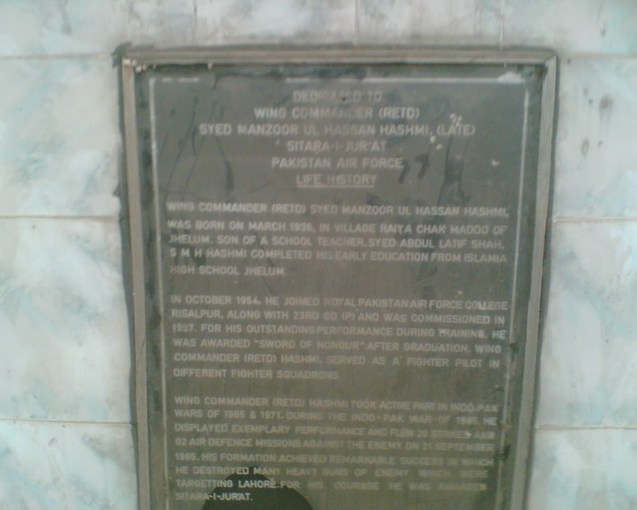 A lectern near F-6 aircraft mounted by PAF authorities in Jhelum City